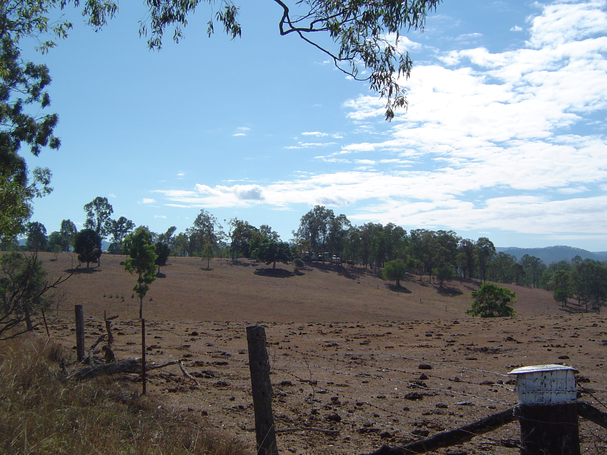 Photo of cow paddocks at Borallon, Somerset Region, Queensland, Australia.